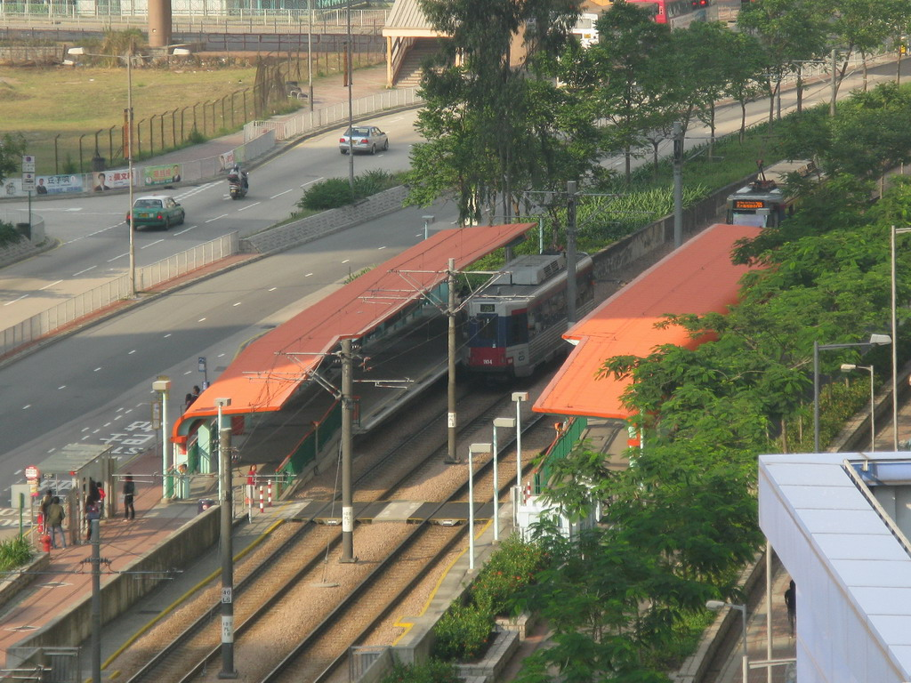 輕鐵 天富站 Tin Fu Stop, Light Rail